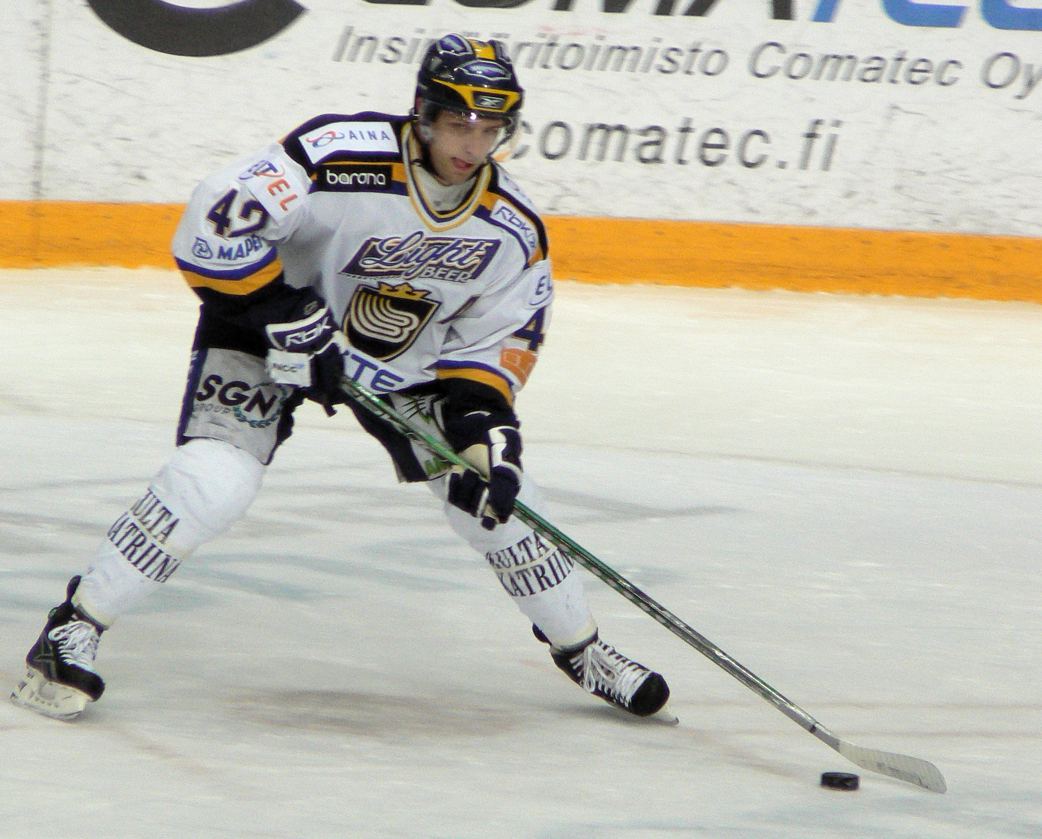 Finnish ice hockey defenseman Arto Laatikainen playing for Espoo Blues in February, 2008.